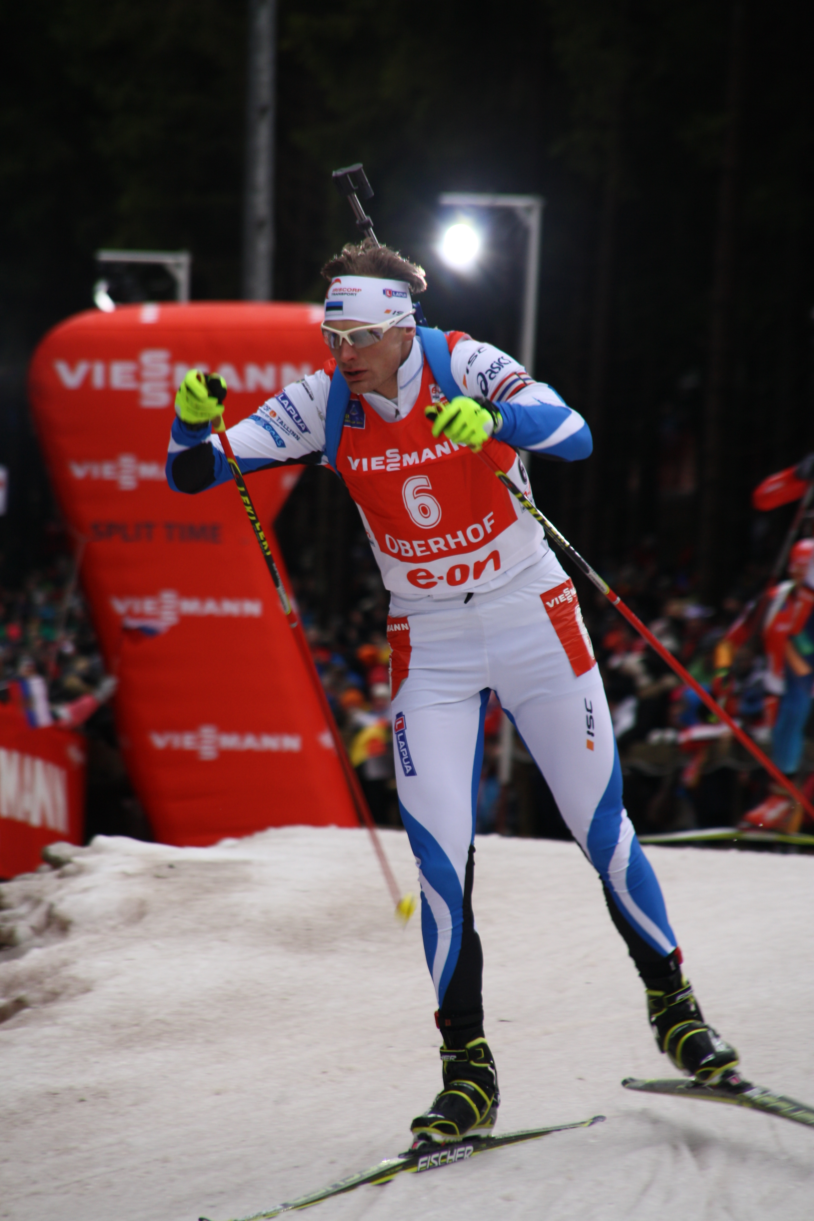 Biathlon World Cup Oberhof 2014 - Mens Pursuit